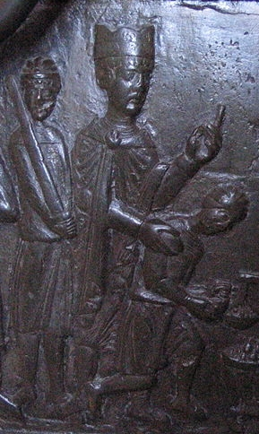 Gniezno Doors, Boleslaw I of Poland buys the body St. Adalbert back from Prussians